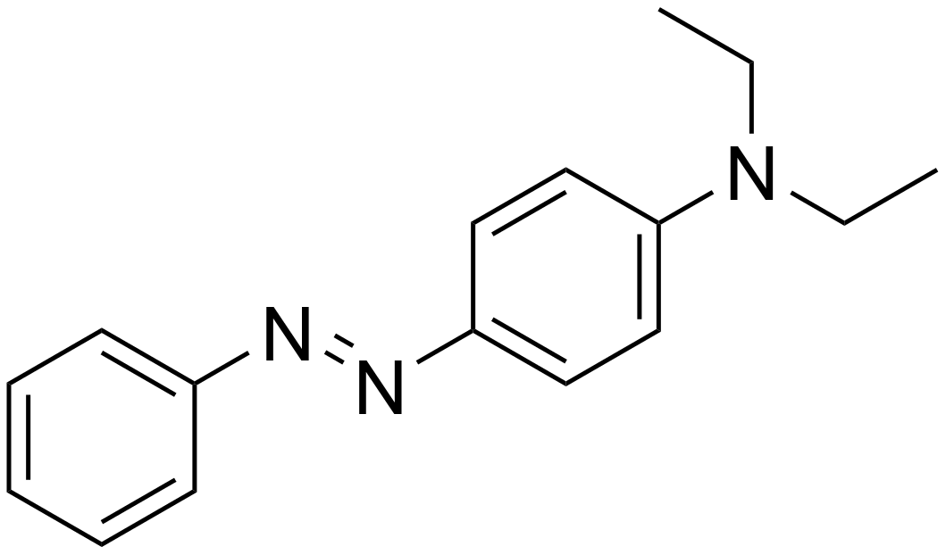 Description: Chemical structure of Oil Yellow DE Author, date of creation: selfmade by Shaddack, 4 February 2006 Source: self-made Copyright: Public Domain (PD) Comments: b/w hires PNG; ChemDraw